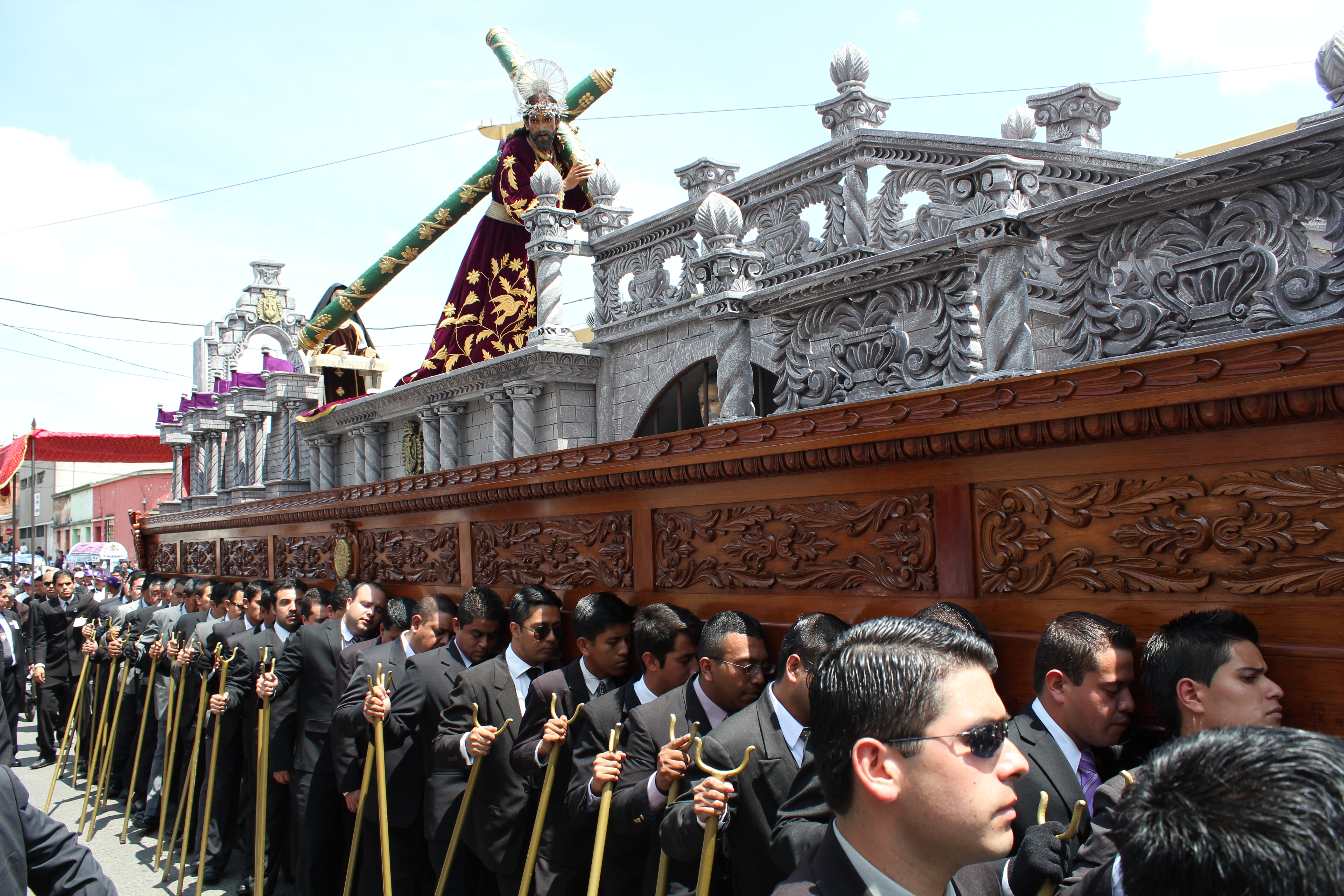 Guatemala City, Semana Santa procession, Holy Wednesday Semana Santa (Holy Week) in Christianity is the week just before Easter. In the west, it is also the last week of Lent, and includes Palm Sunday, Holy Wednesday, Maundy Thursday, Good Friday, and Holy Saturday. It does not include Easter Sunday, which is the beginning of another liturgical week. Many of the Holy Week processions in Guatemala date back to the 17th century. Many of the colonial images of Christ with the Cross date back to the 16th and 17th centuries, and some were made by Guatemalan artists. (source